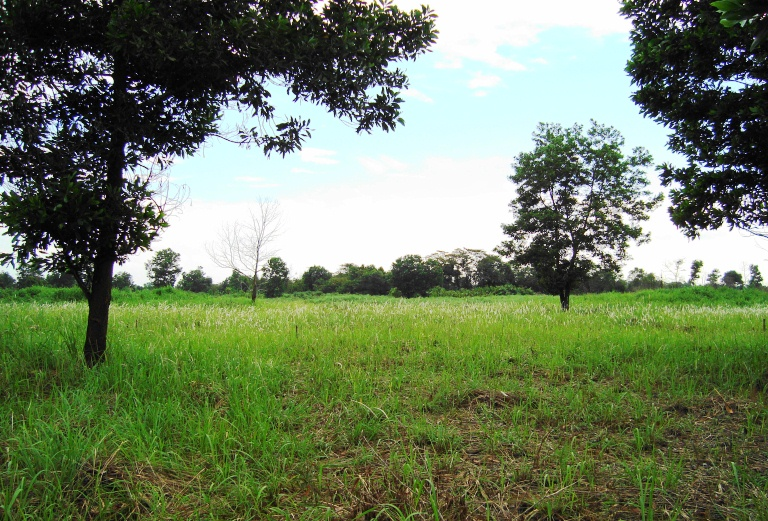 Shifting atmosphere of peace and quiet in Kampar regency, Riau.